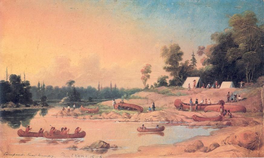 Painting of a camp on the banks of the Winnipeg River, in Manitoba